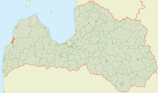 Location of Jūrkalne Parish in Latvia